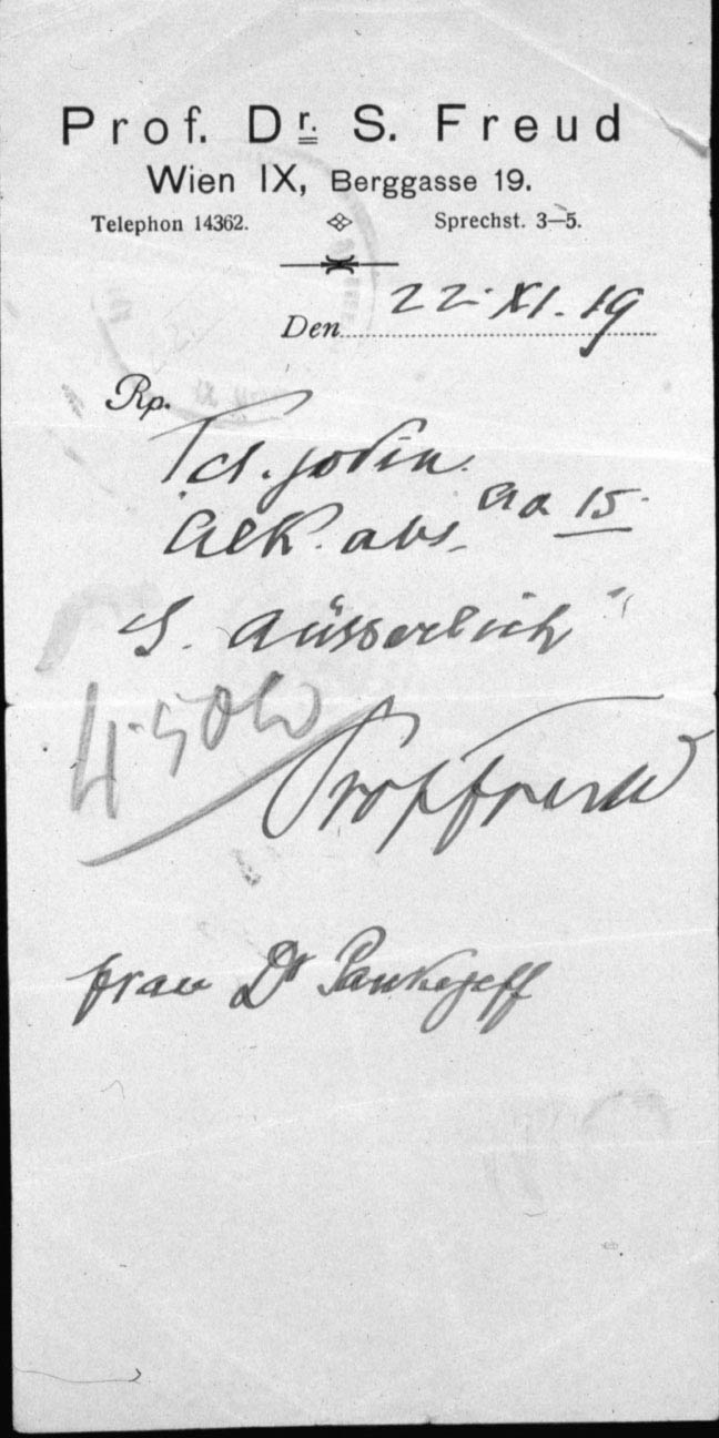 Prescription written by Dr. Sigmund Freud for the wife of the patient he dubbed "the Wolf Man," whose real name was Sergius Pankejeff. [1] Library of Congress, Washington, D. C.